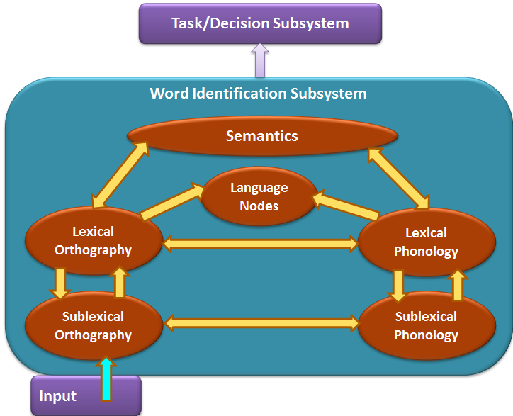 This is an updated with better resolution of the original BIAfig. A flow chart representation of the BIA+ model for bilingual language processing including the word identification and task/decision subsystems.